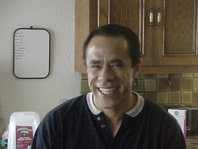 Guy DiSilva on the set of "Xplicitly Anal" for VCA Pictures